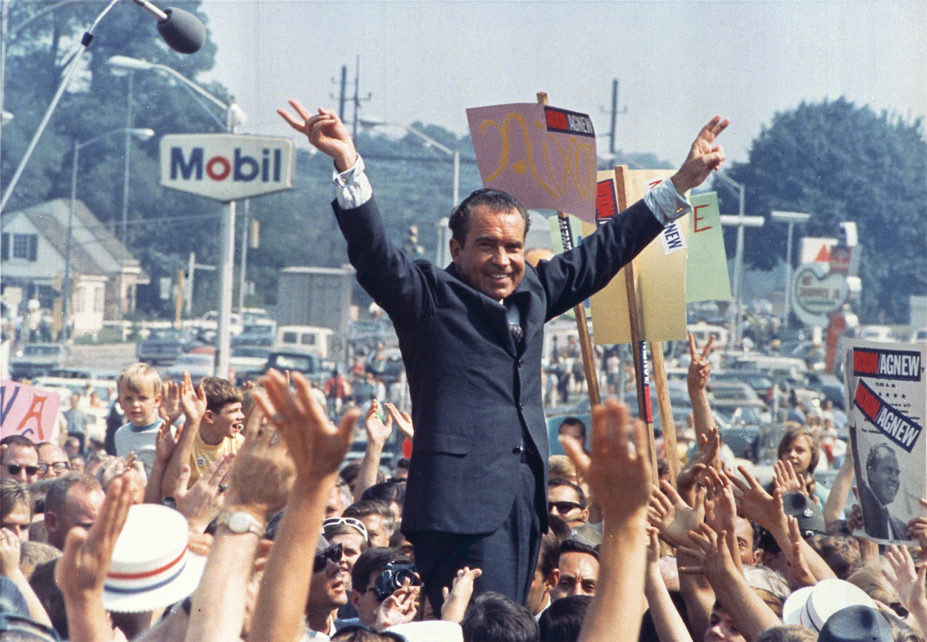 Richard Nixon gives his trademark "victory" sign while in Paoli, PA (Western Philadelphia Suburbs/Main Line) during his successful campaign to become President of the United States